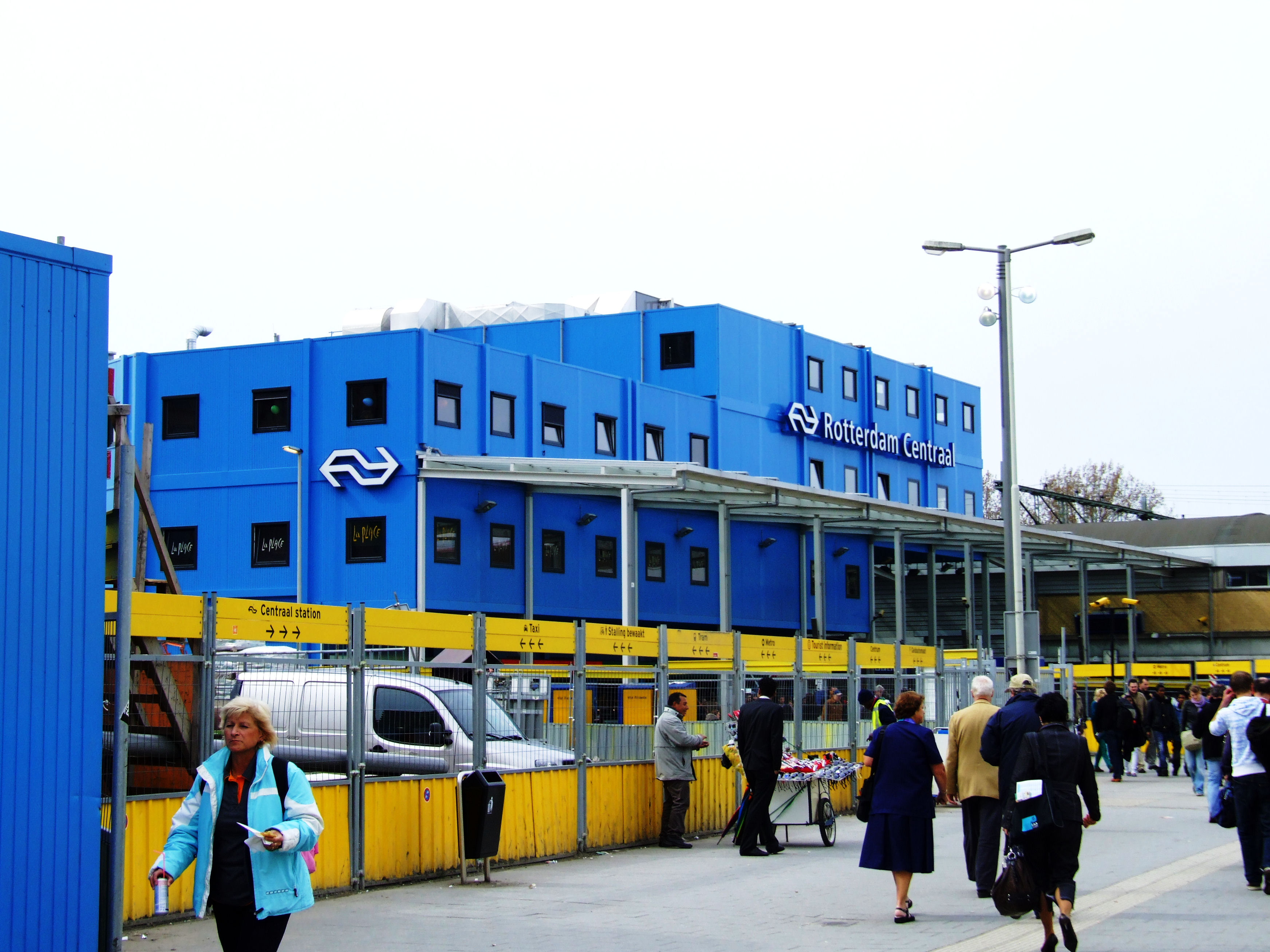 The temporary Rotterdam Centraal station, The Netherlands